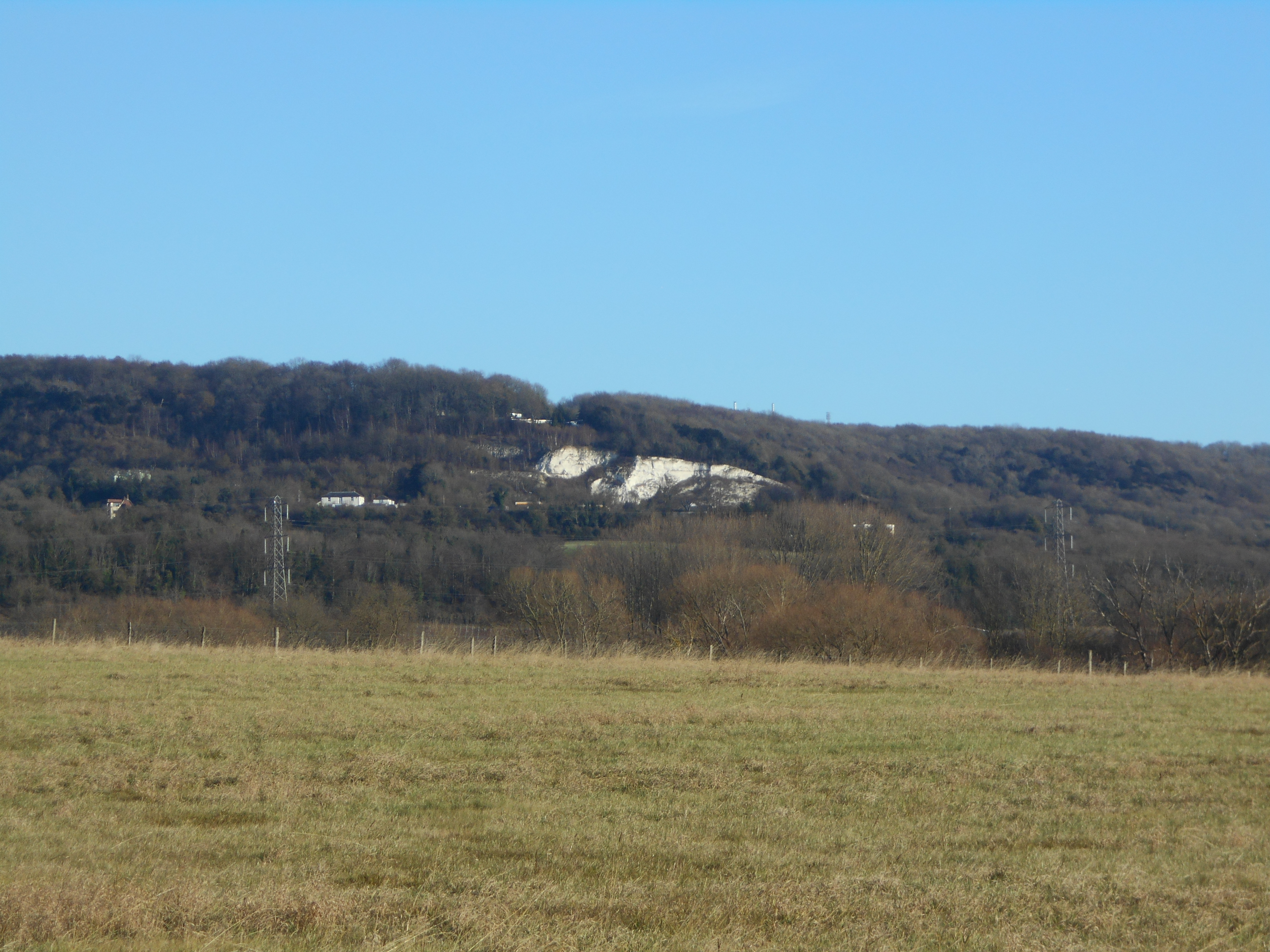 View of Blue Bell Hill, from fields near Cowleaze Farm, Aylesford, Kent, England.